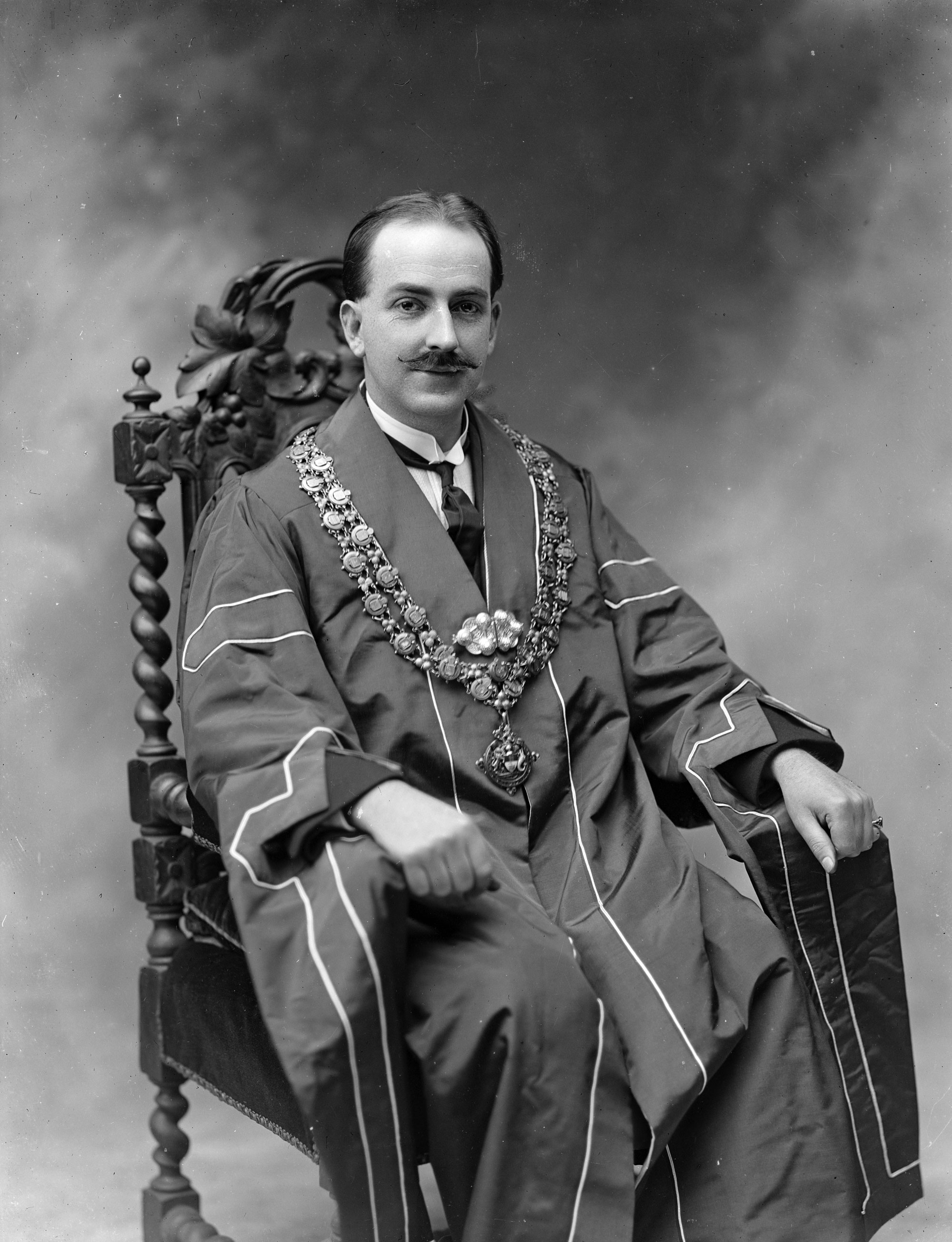 Was worried that it'd be difficult to find a photo taken on 29 February as it only rolls around once every four years, but the Poole Collection came to my rescue... This is Dr Vincent White in his Mayoral robes. Dr White was the first Sinn Féin Mayor of Waterford from 1920 to 1926, and is beautifully caricatured here (no. 91) in an image from Waterford County Museum. Some of you may remember that Vincent White featured on 1932 election posters advertising meetings at Ballytruckle and Aphonsus Road, Waterford in this photo from Thursday, 11 February 1932, and that he was married to Mrs E. White who commissioned this photo taken on Saturday, 2 February 1924... Date: Sunday, 29 February 1920 NLI Ref.: P_WP_2844